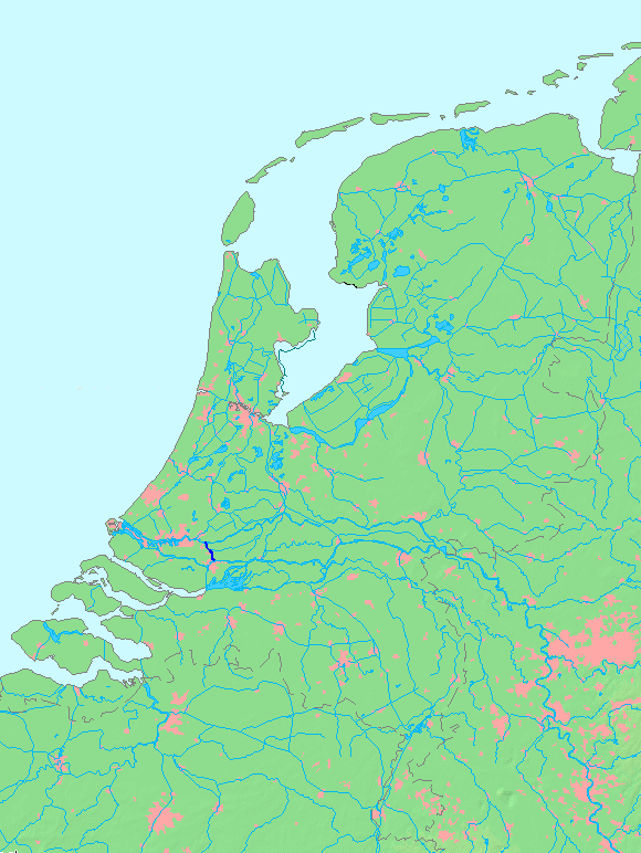 Location of a waterway (river/canal) in the Netherlends